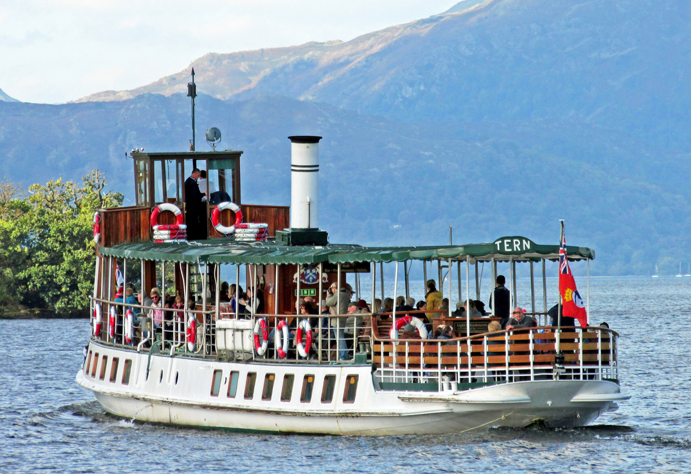 MV Tern built in 1891 departing from Bowness Pier in 2016